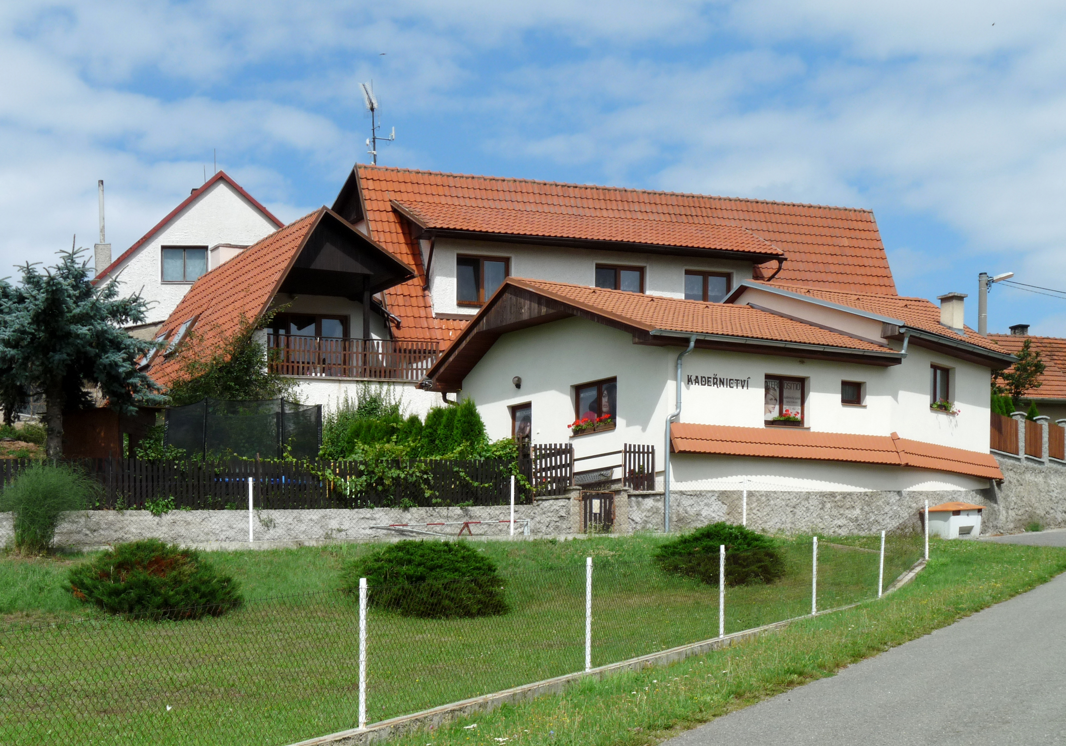 House No 19 in the village of Hojšín is a village in Příbram District, Central Bohemian Region, Czech Republic.